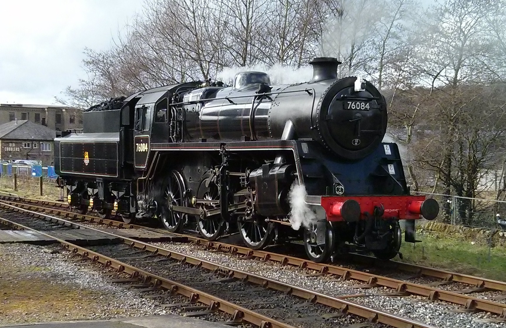 76804 is making its final farewell from the East Lancs Railway